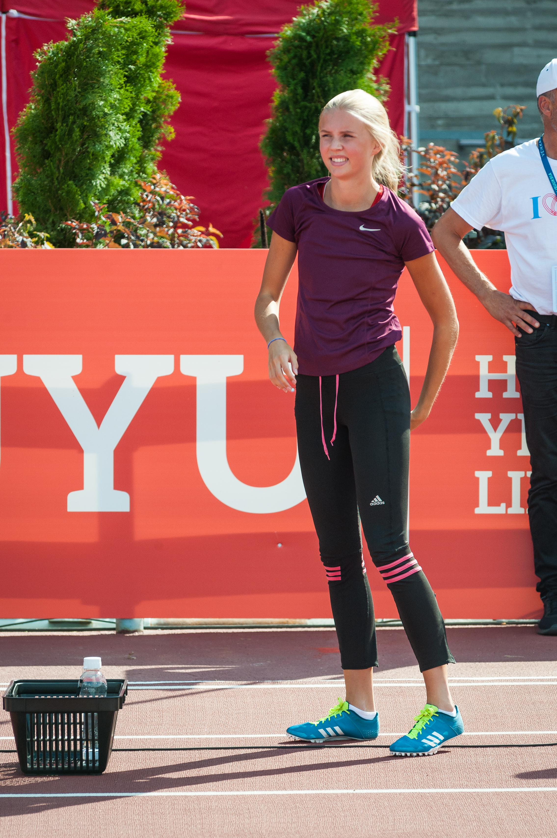 Women's 400 m hurdles competition at the 2018 Kalevan Kisat, the Finnish championships in athletics, in Jyväskylä, Finland.